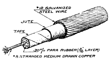 A 1921 depiction of the layers of the Ambrose Channel pilot cable.